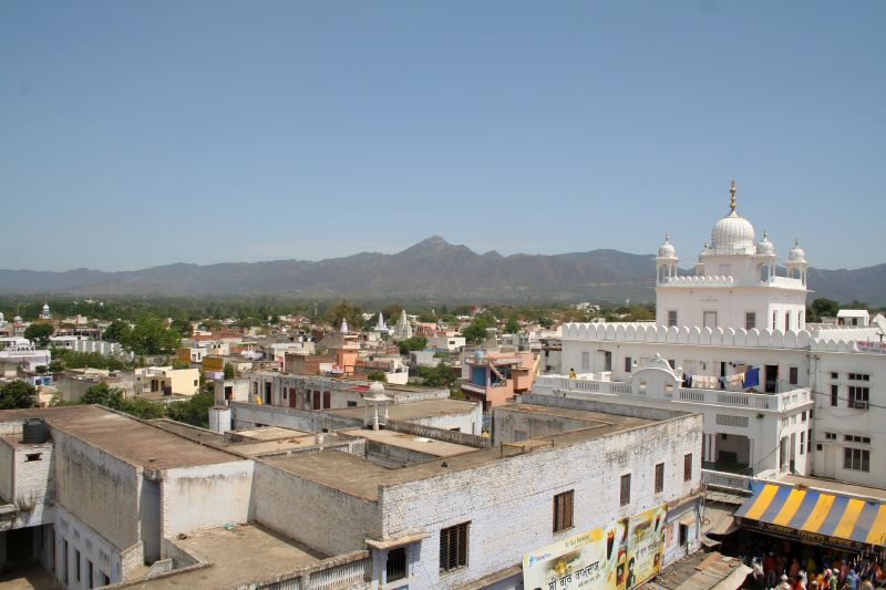 A Sikh temple on the right, Himalaya foothills, Punjab Himachal Pradesh border